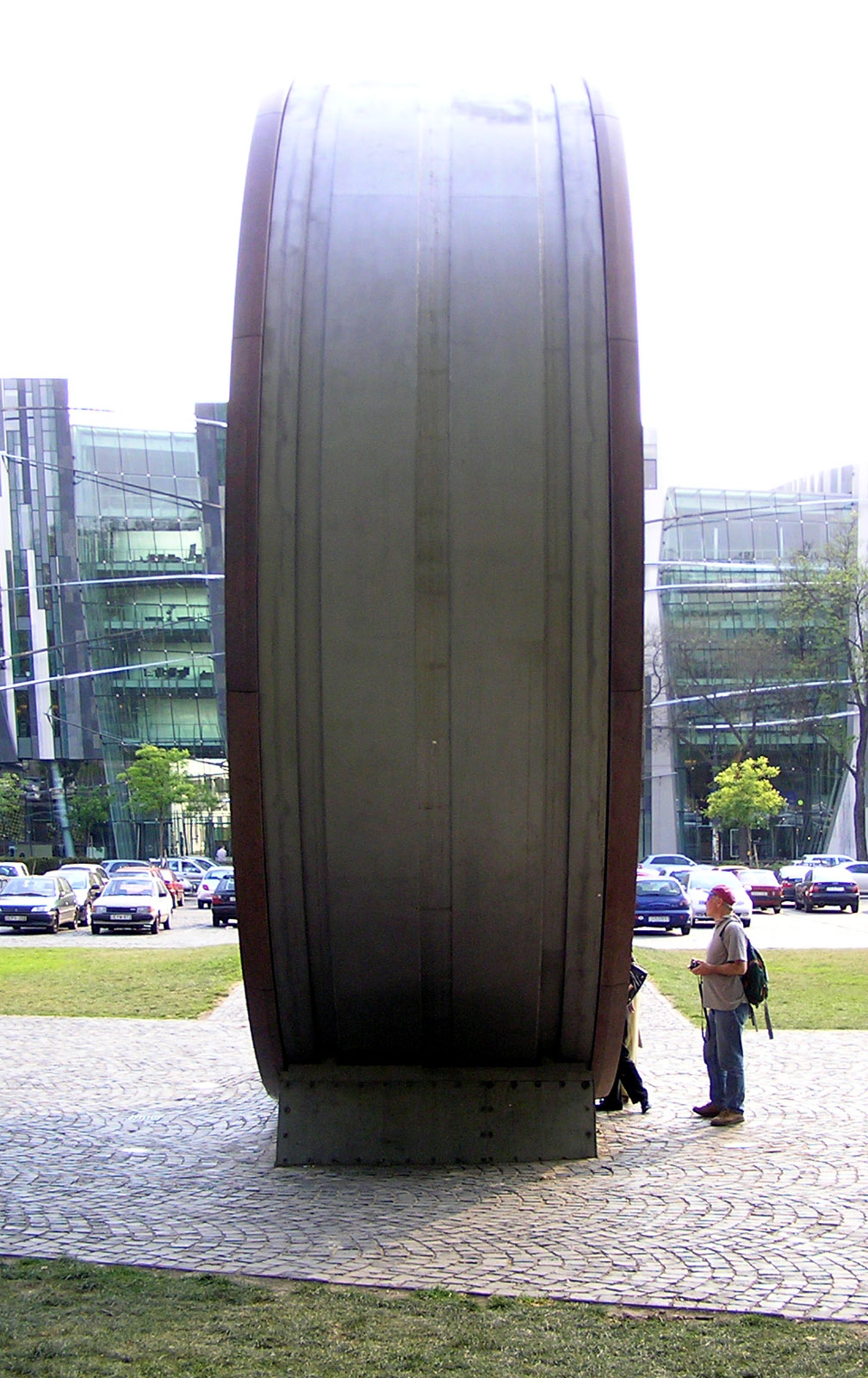 Timewheel in Budapest